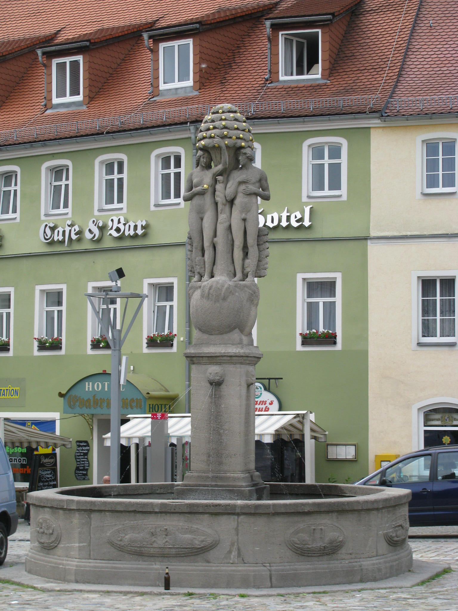 Description Bischofswerda Date29 May 2010SourceOwn workAuthorWikiAnikaPermission (Reusing this file)